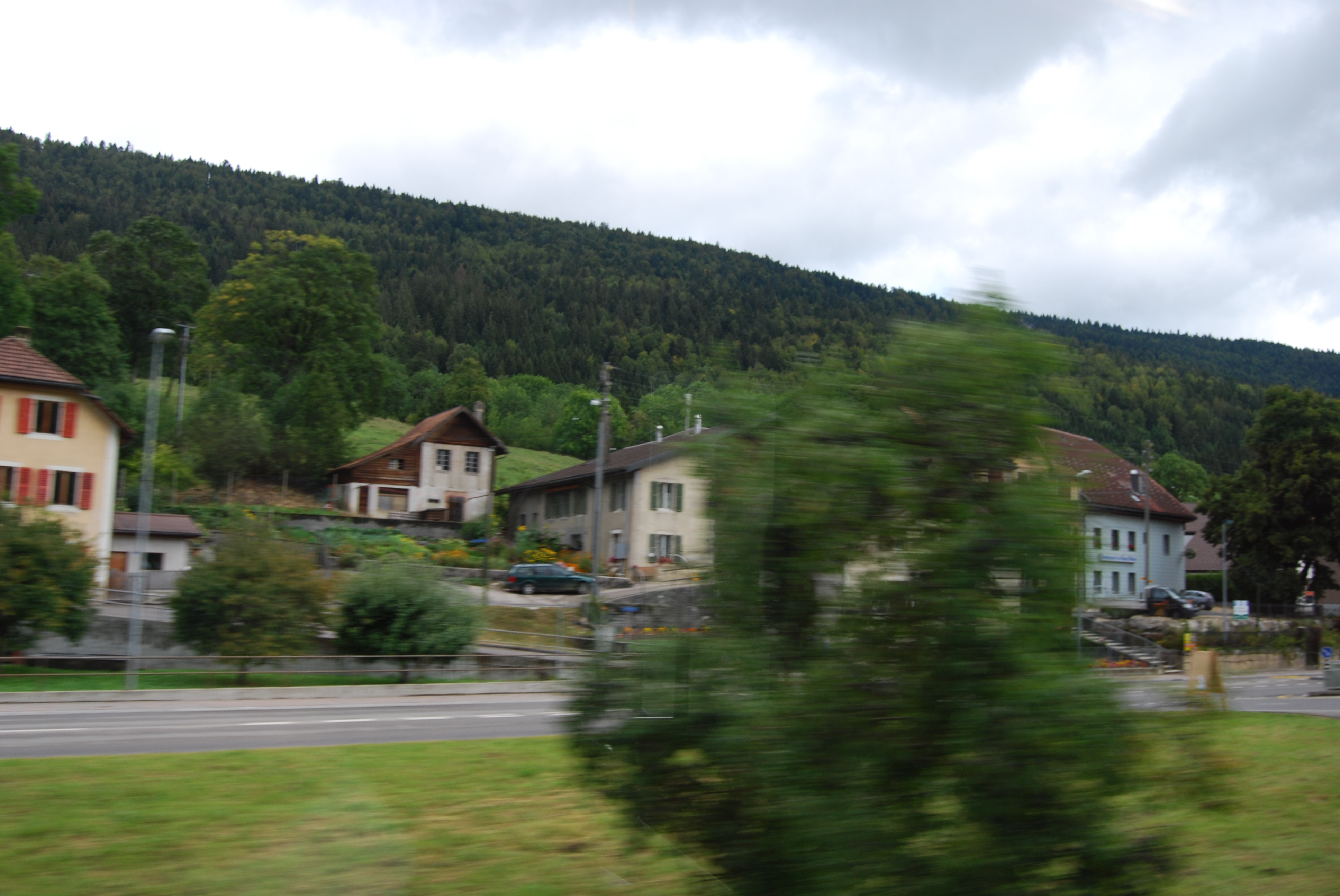 Cormoret, canton of Bern, SwitzerlandEsperanto: Cormoret, Kantono Berno, Svislando